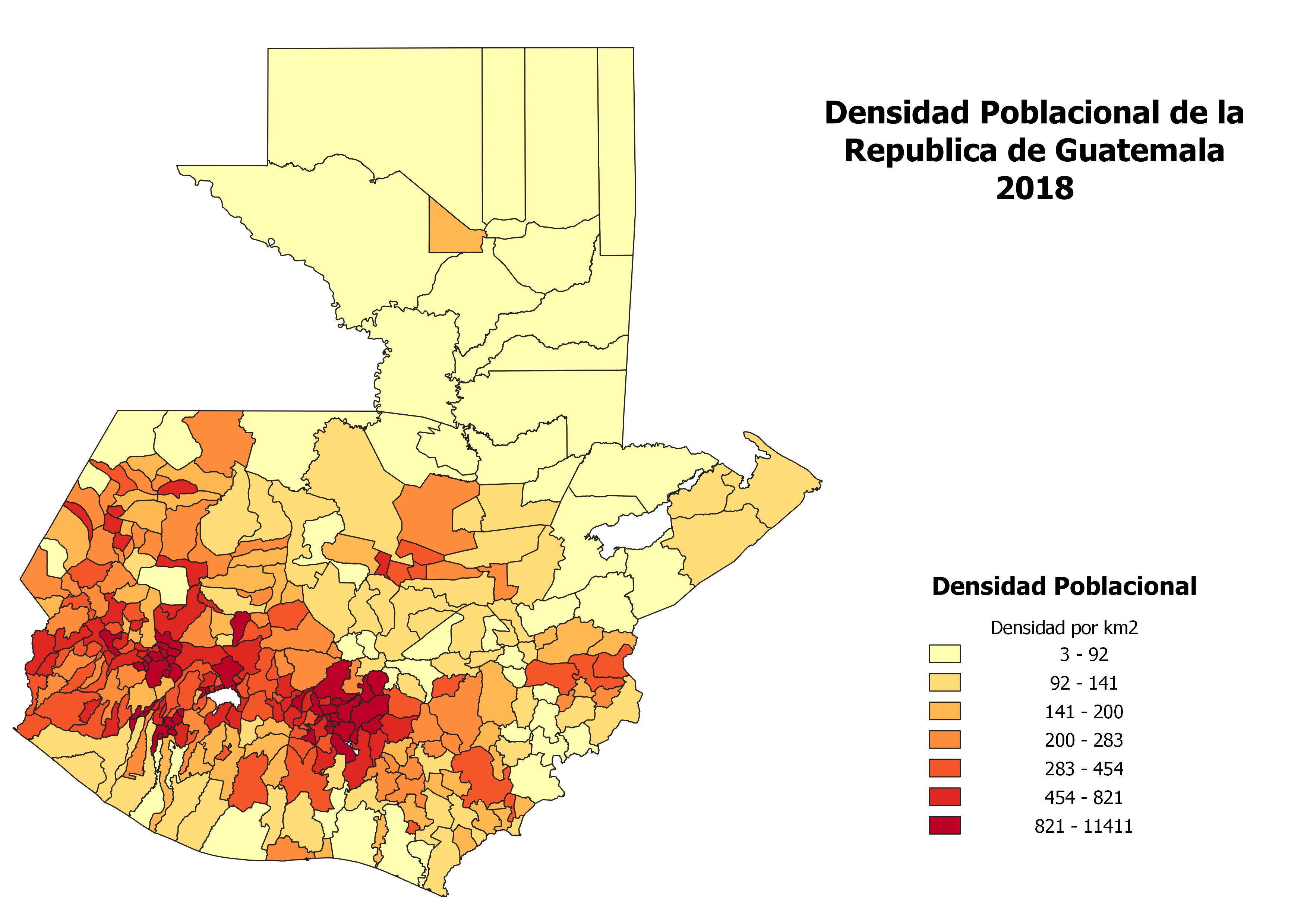 Densidad Poblacional de Guatemala en 2018, datos segun el INE